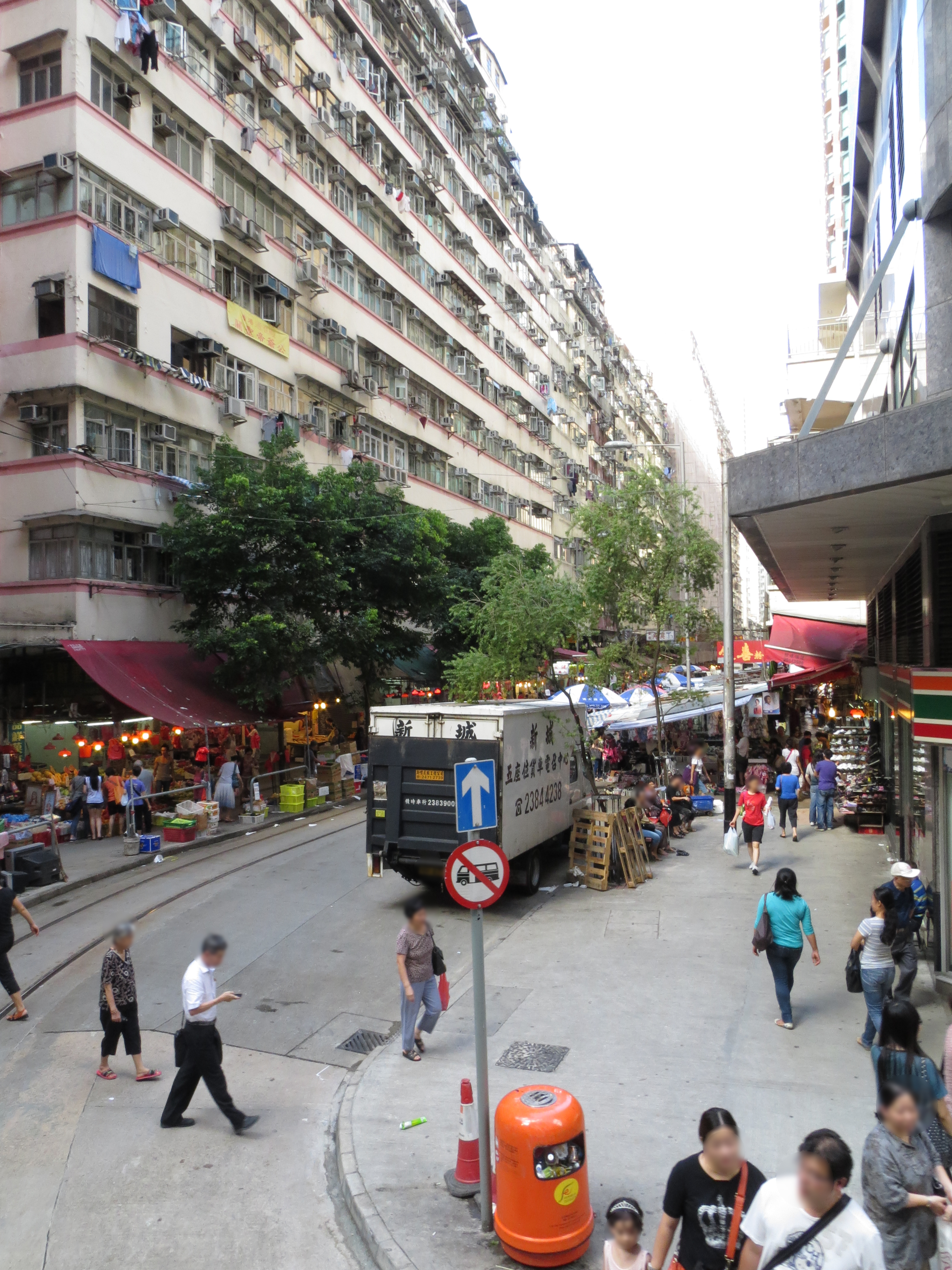 Chun Yeung Street near North Point Road, North Point, Hong Kong.